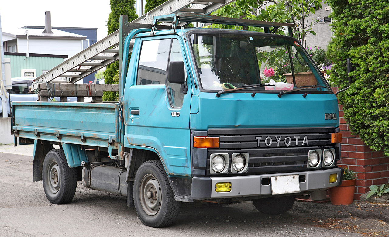 Toyota Dyna 150 ( LY5# )